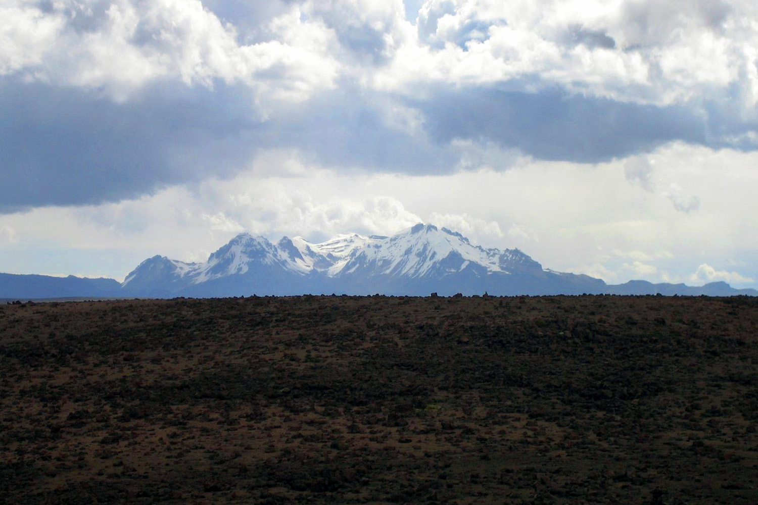 Hualca Hualca (Arequipa - Peru) belongs to the Cordillera de Ampato